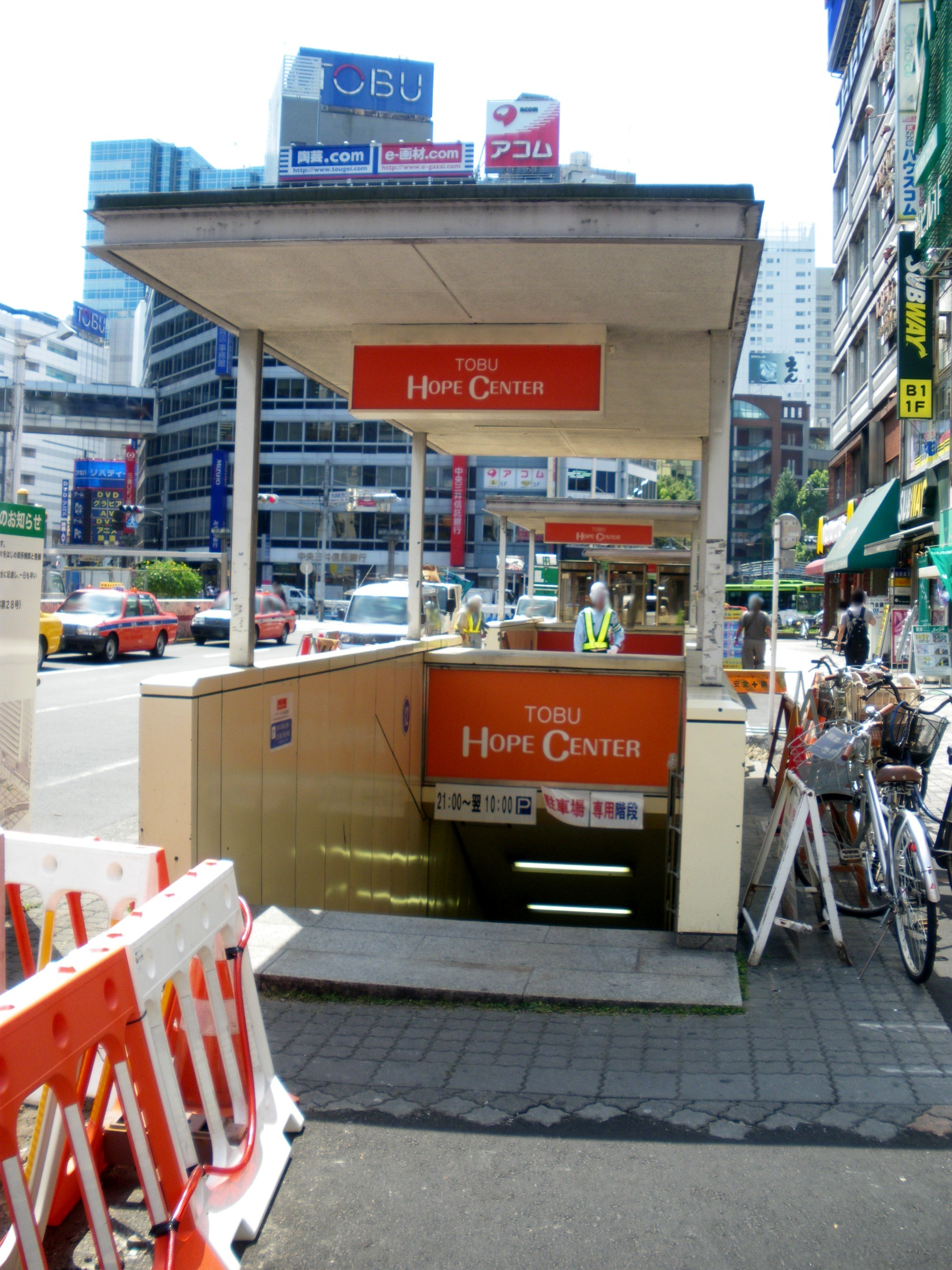 A photo of an entrance of Tobu Hope Center,Ikebukuro,Toshima-ku,Tokyo,Japan.